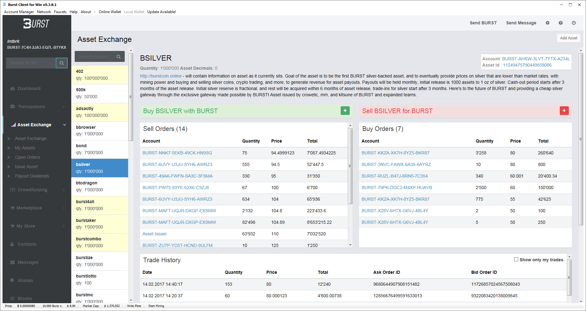 Burst asset exchange